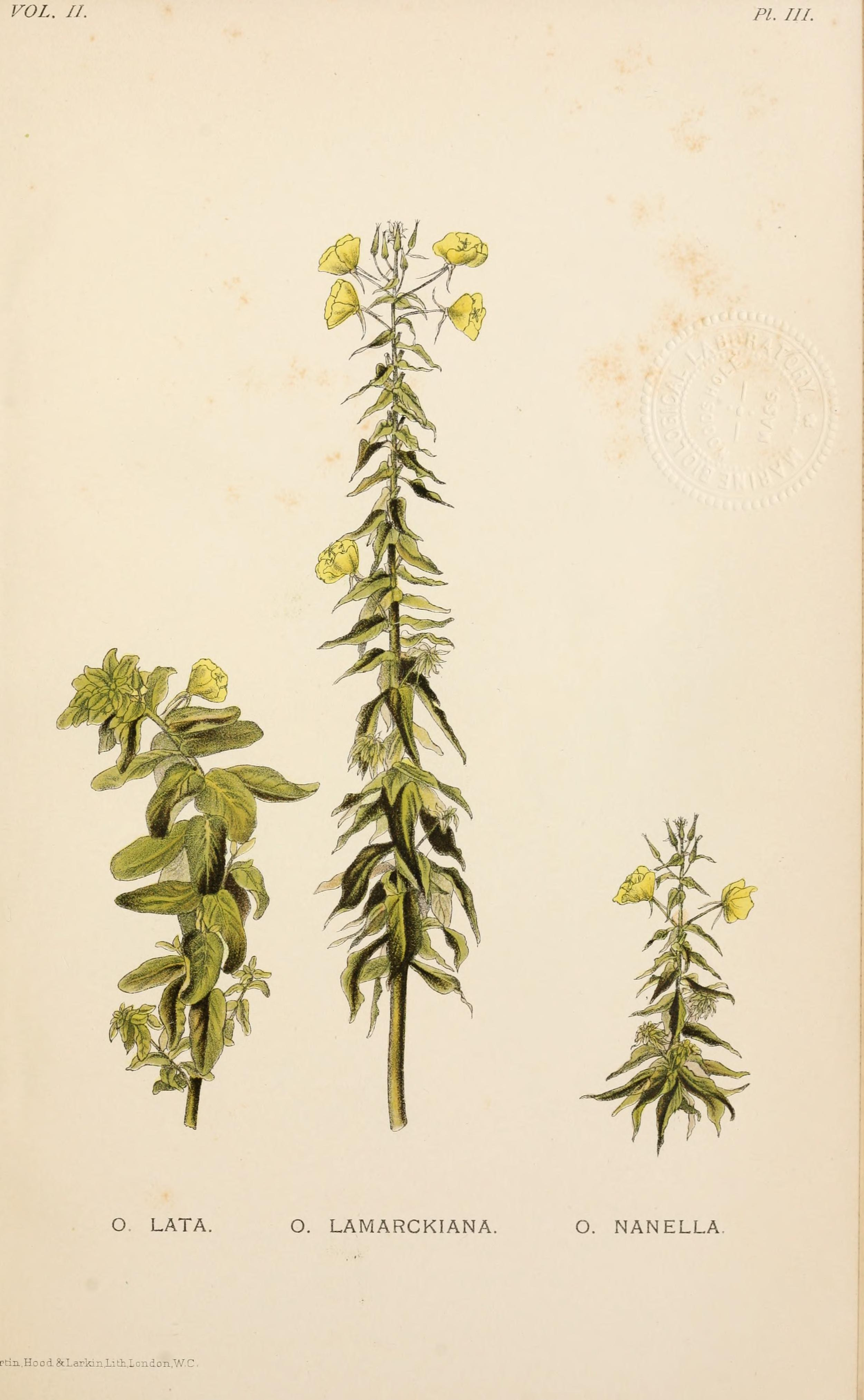 Title: The mutation theory; experiments and observations on the origin of species in the vegetable kingdom Year: 1909 (1900s) Authors: Vries, Hugo de, 1848-1935 Farmer, J. B. (John Bretland), 1865-1944 Darbishire, A. D. (Arthur Dukinfield), 1879-1915 Subjects: Plants -- Variation Evolution (Biology) Hybridization, Vegetable Evolution Publisher: Chicago, Open Court Publishing Company (etc., etc.) Text Appearing Before Image: ' Text Appearing After Image: '